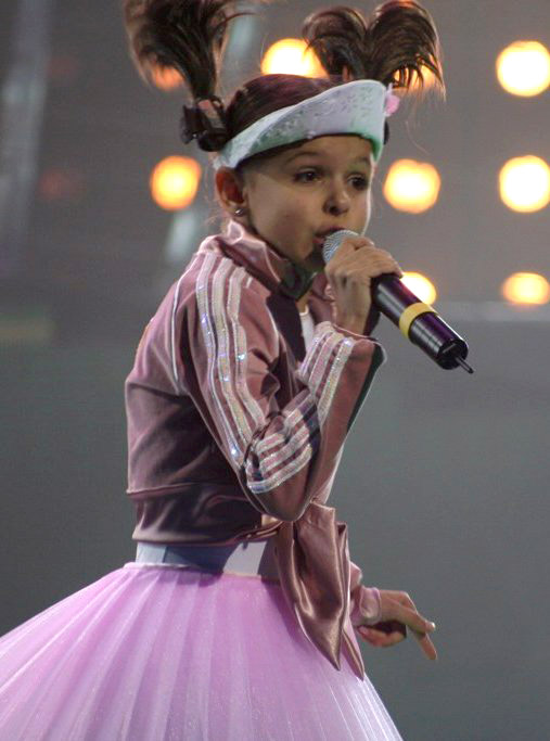 Ksenia Sitnik in JESC 2005, cropped from original.